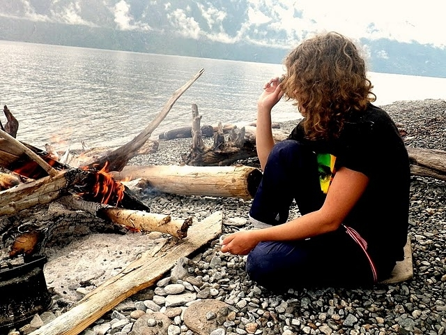 On Teletskoye beach